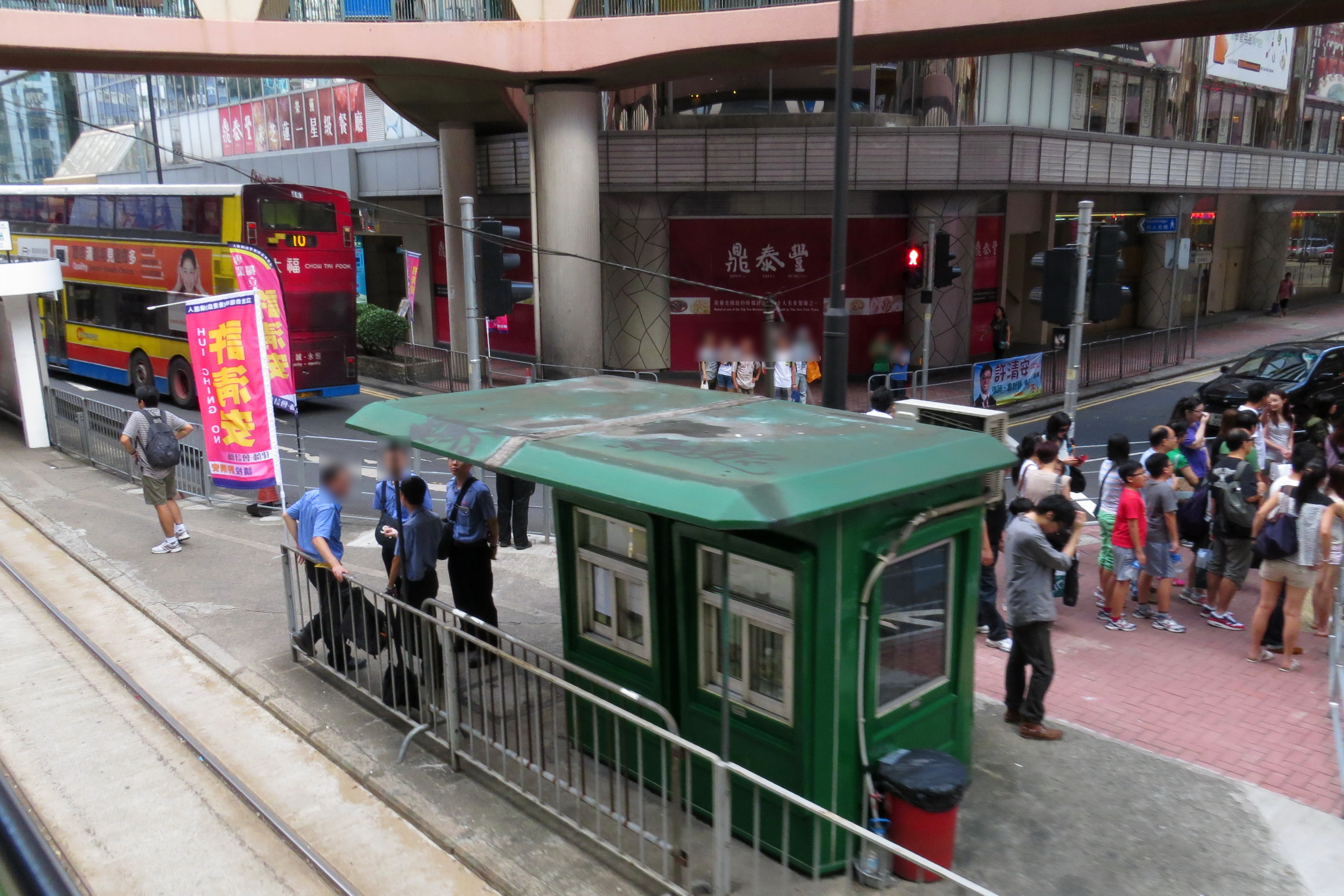 Hong Kong Tramway staff kiosk at Yee Wo Street and Pennington Street, Causeway Bay, Hong Kong.